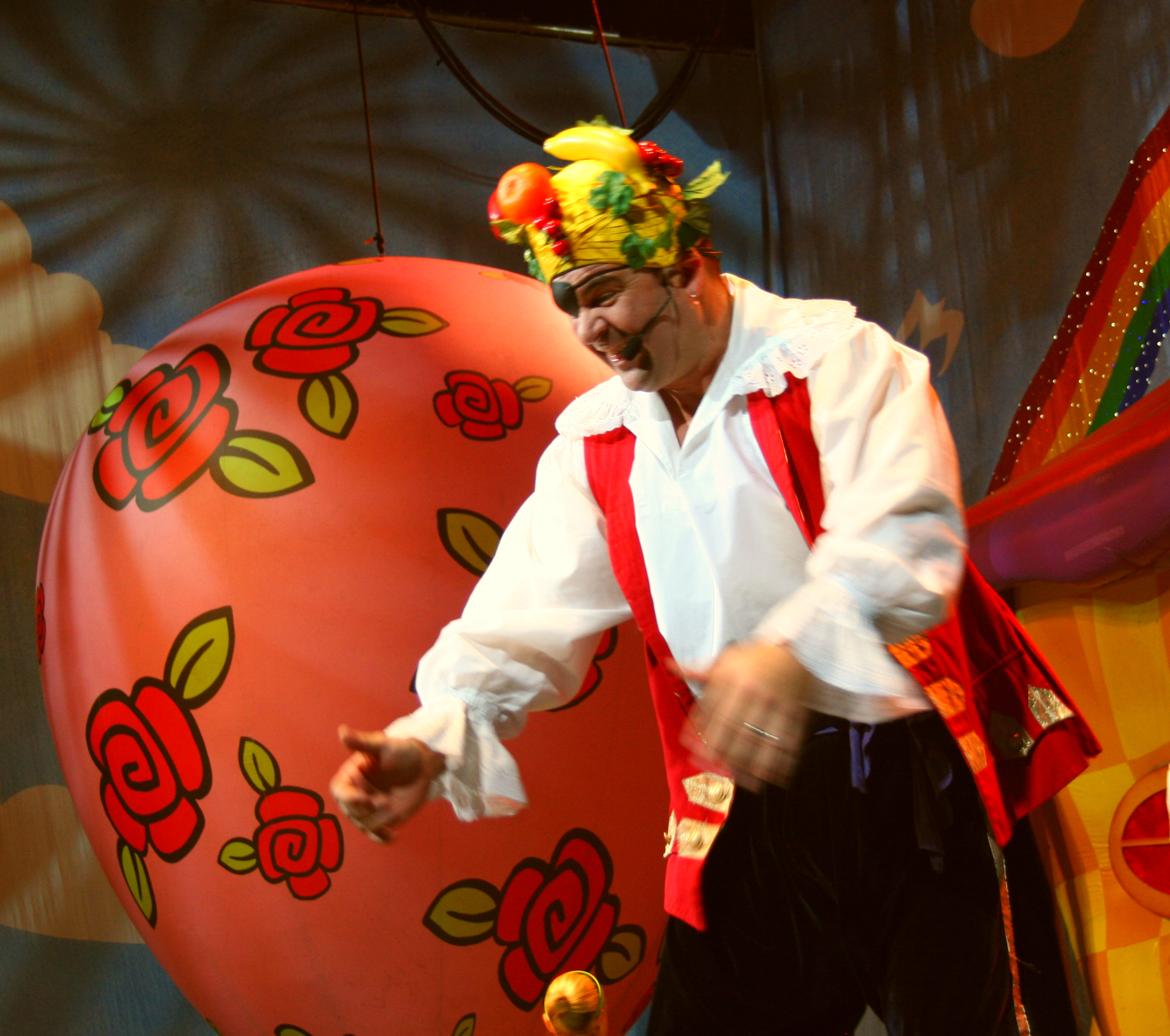 Paul Paddick of The Wiggles Live @ the MCI Center - Nov. 8, 2007 Photo taken by Anthony Arambula